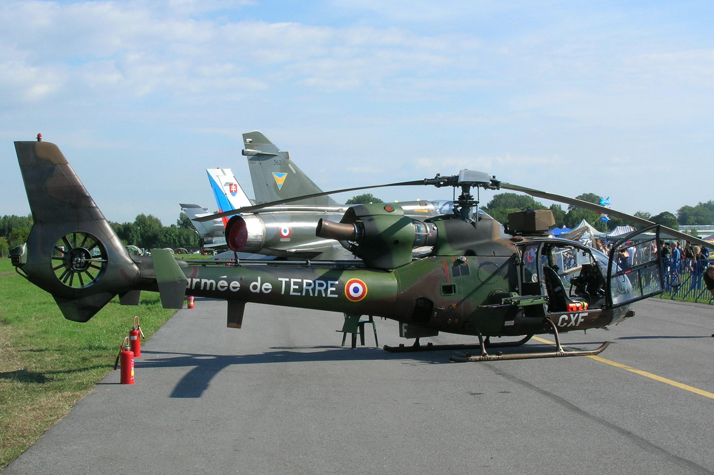 Copyright © 2005 Voytek S Aérospatiale Gazelle during Airshow Radom 2005, Poland